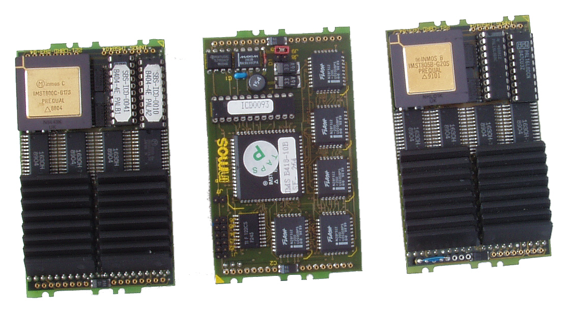 INMOS transputer modules IMSB404 (left and right) and IMSB418 (center)